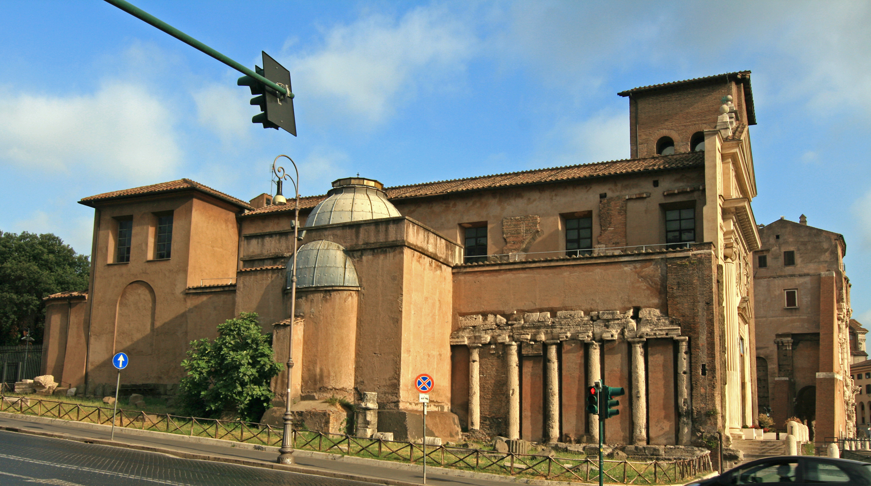 Church of San Nicola in Carcere, Rome. Seen from Via del Foro Olitorio.